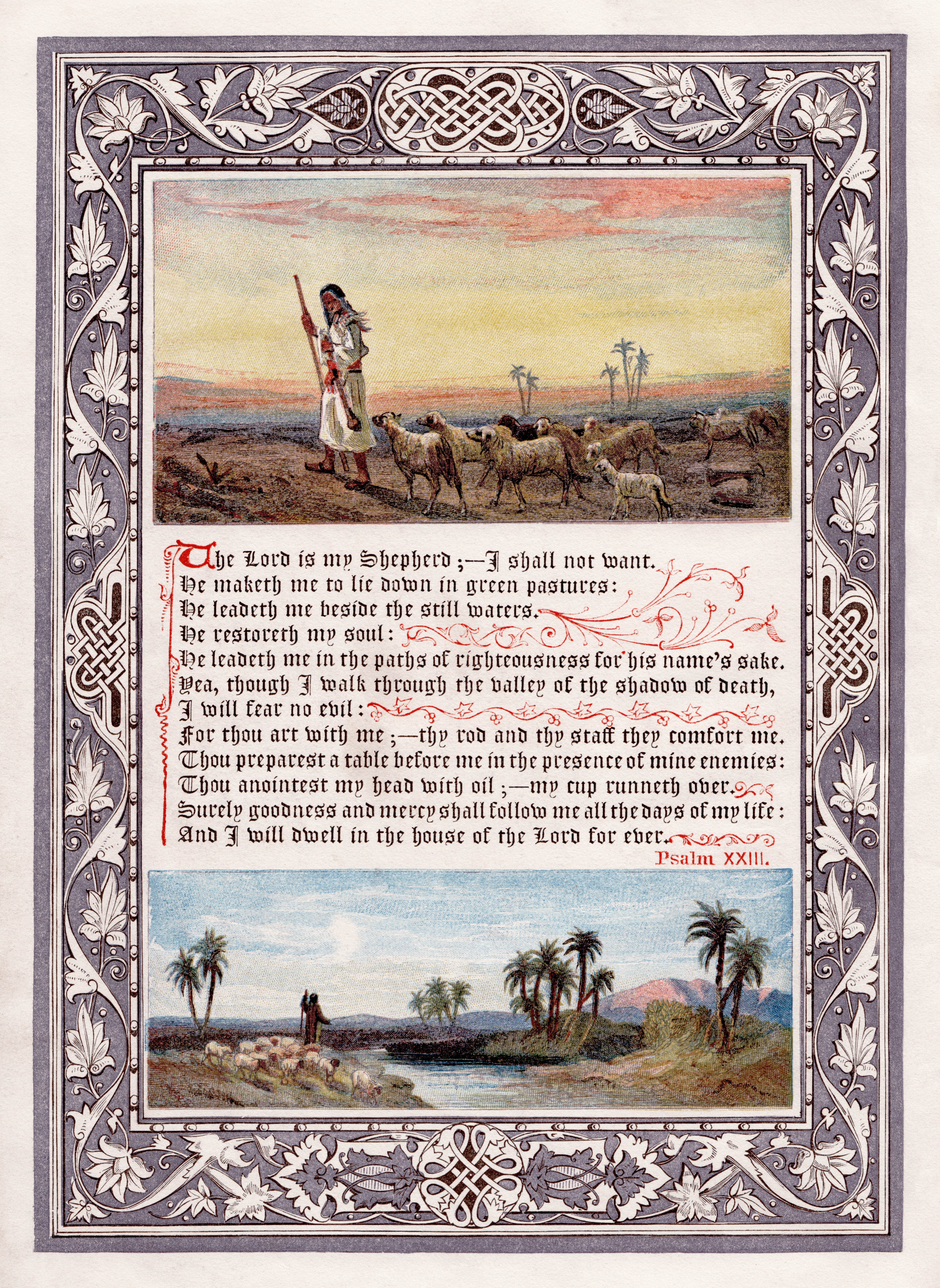 An image of Psalm 23 (King James' Version), frontispiece to the 1880 omnibus printing of The Sunday at Home. Scanned at 800 dpi.